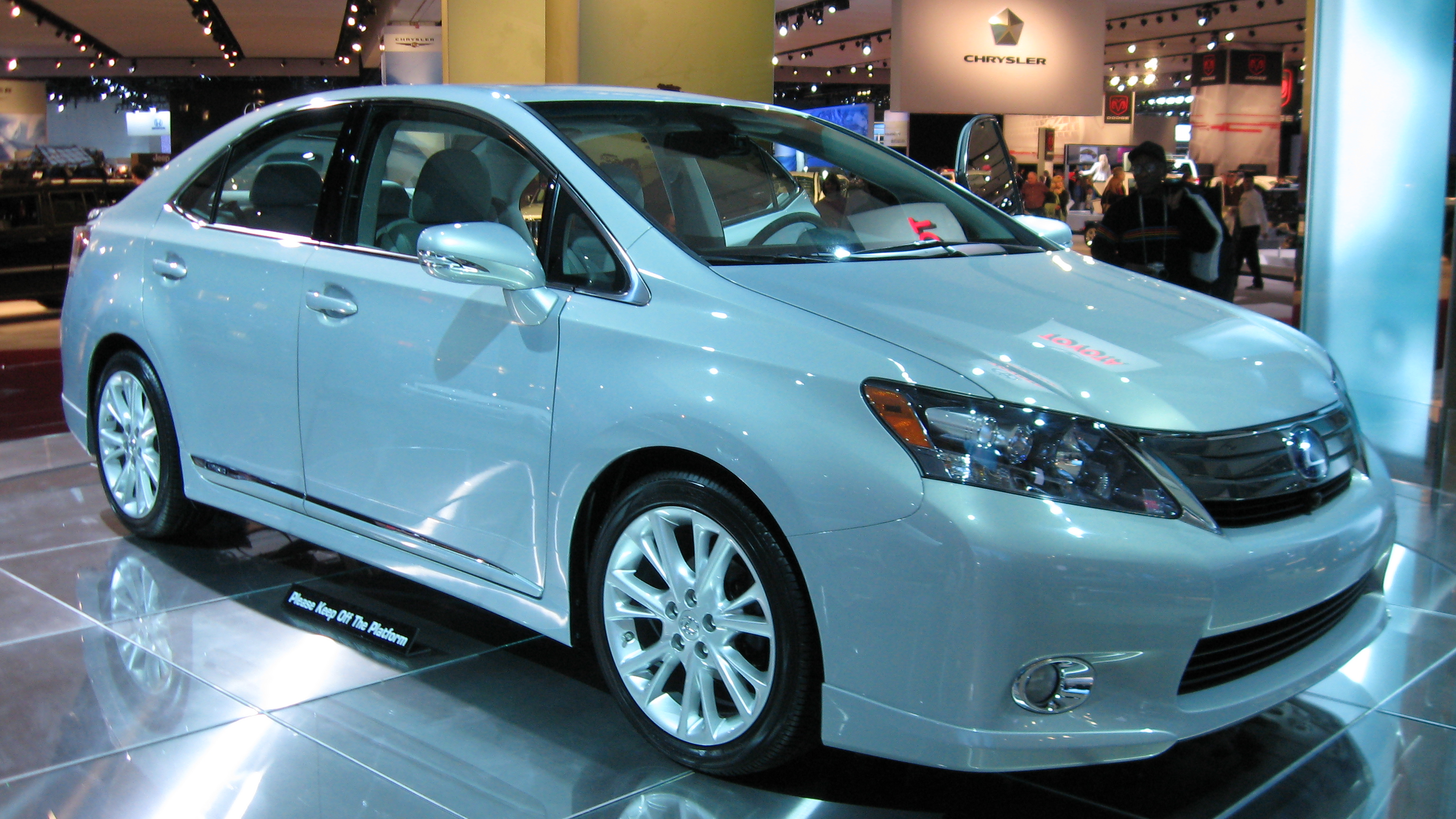 Lexus HS250h